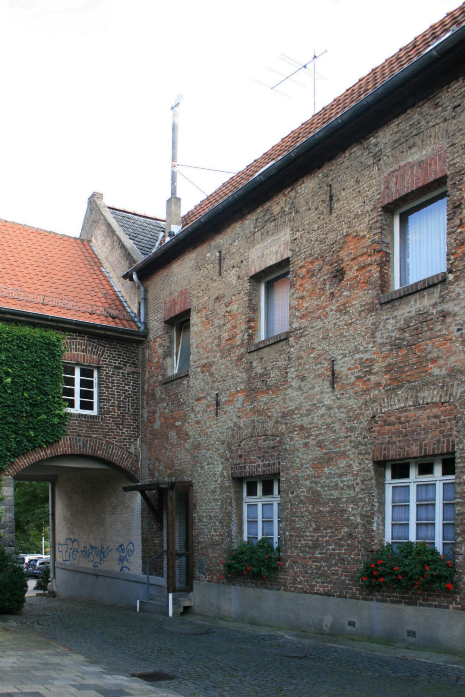 Cultural heritage monument No. K 046 in Mönchengladbach